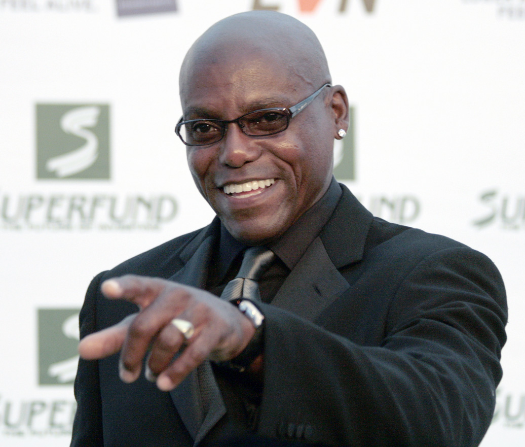 Carl Lewis at the "green carpet" for the Save the World Awards 2009 (Zwentendorf Nuclear Power Plant, Lower Austria).